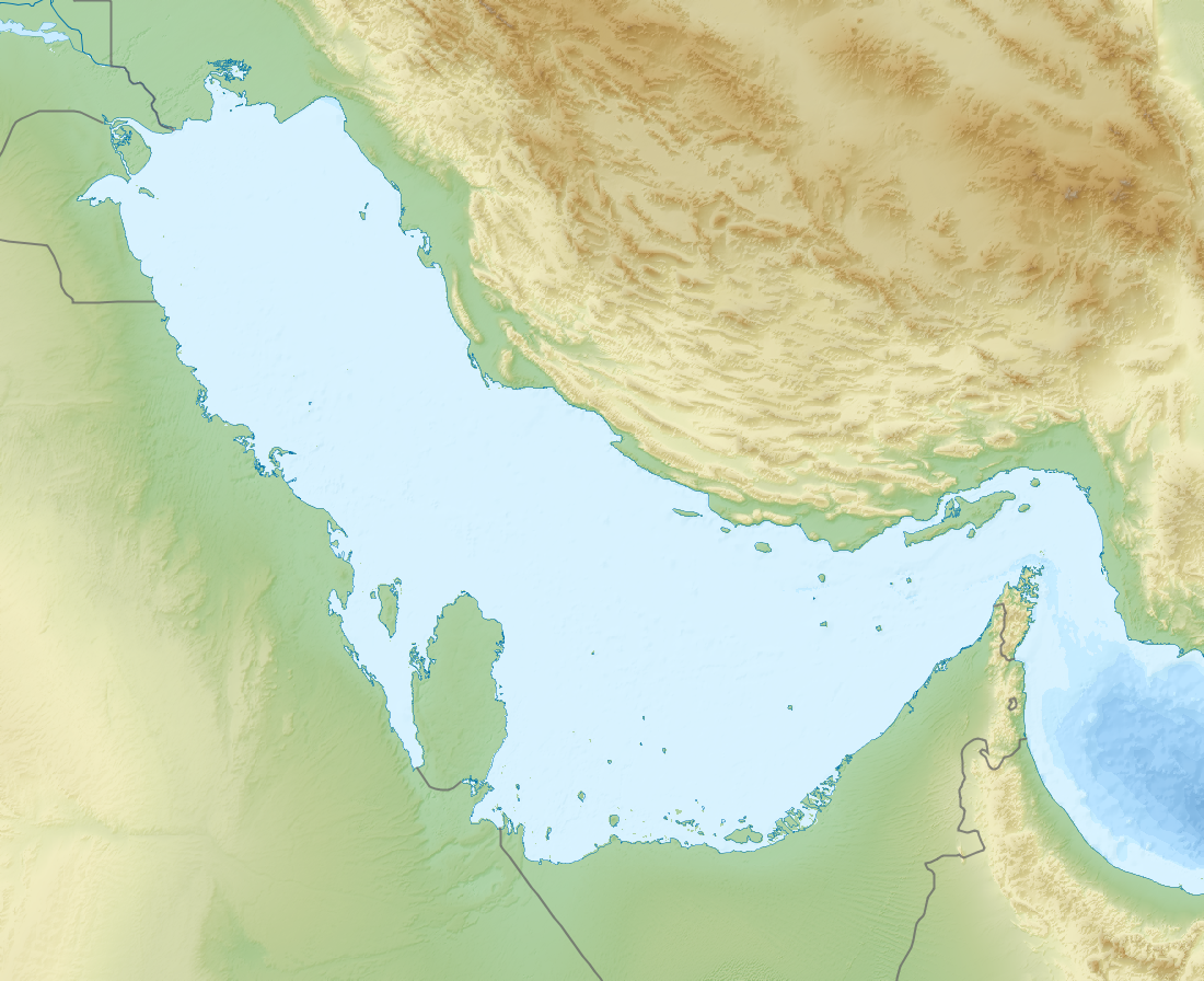 Location map of the Persian Gulf. Equirectangular projection. Strechted by 112.0%. Geographic limits of the map: N: 31.0° N S: 23.0° N W: 47.0° E E: 58.0° E Relief: SRTM30plus. Coastline, borders, rivers etc: Made with Natural Earth. Free vector and raster map data @ .